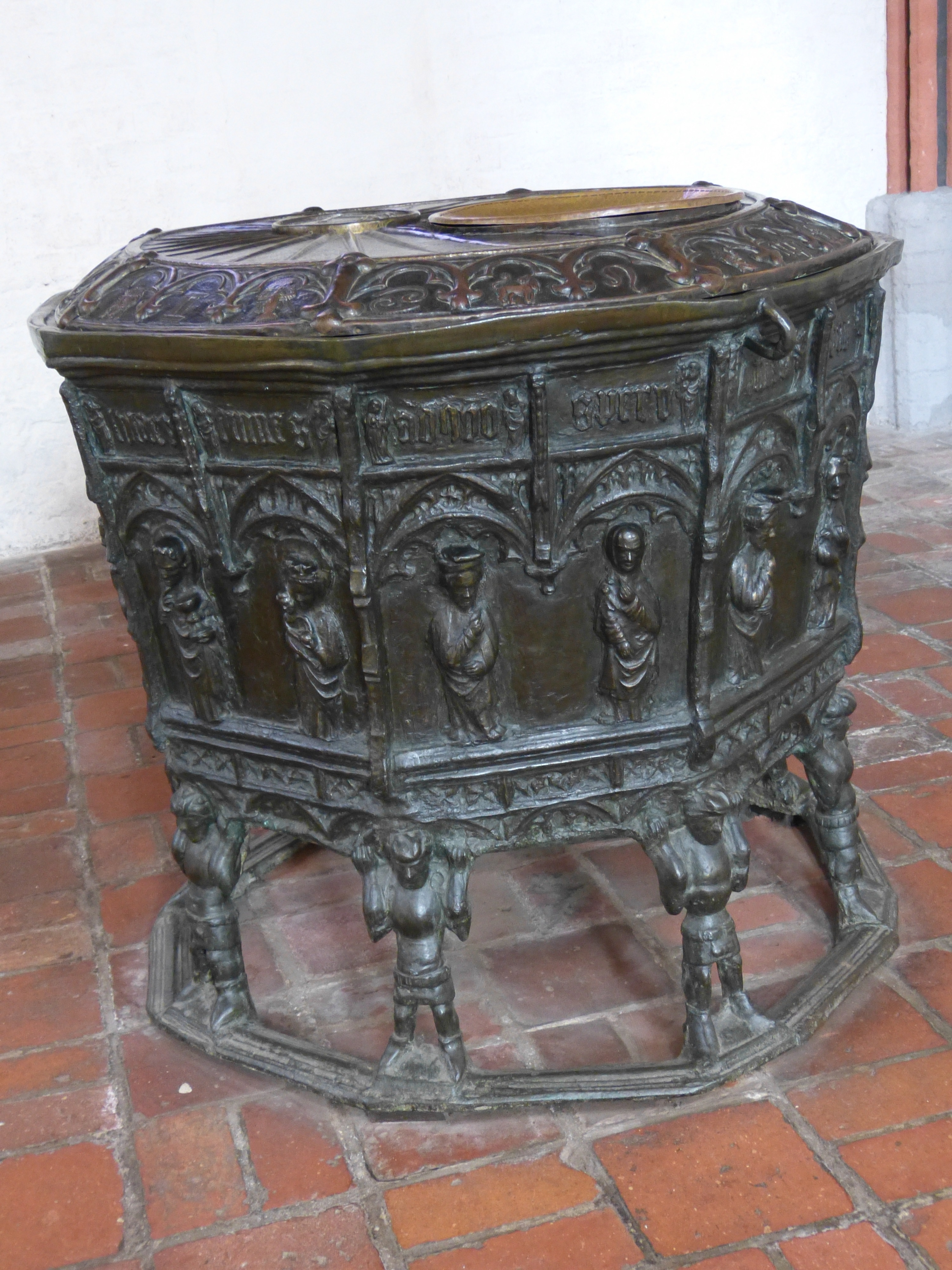 Schwerin Cathedral ( Mecklenburg ). Bronze baptismal font ( 14th century ).